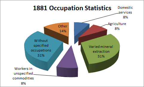 Occupation data of inhabitants in 1881